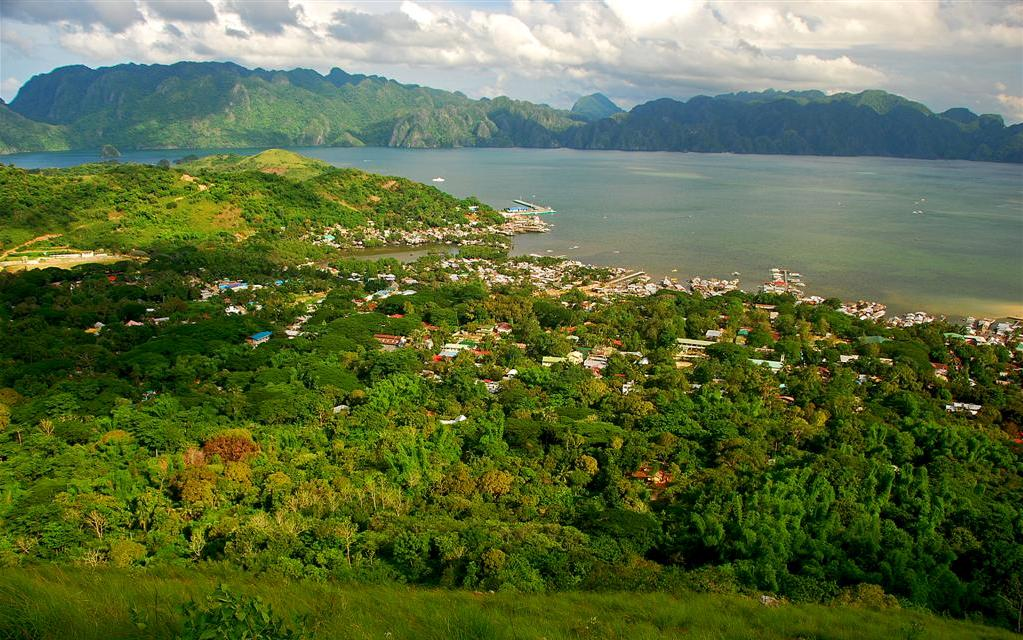 The municipality of Coron is actually located in the Busuanga Island. Coron Island (opposite side) is barely inhabited and mostly by the locals, the Tagbanuas.